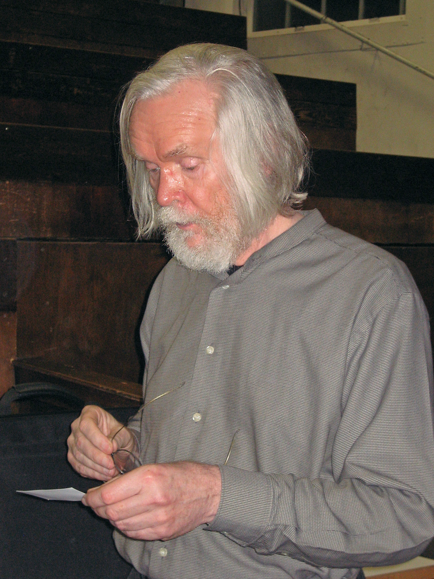 Physicist John Ellis at the University of Heidelberg on 1 February 2008.